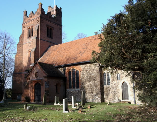 All Saints Church, Inworth, Essex, Great Britain.